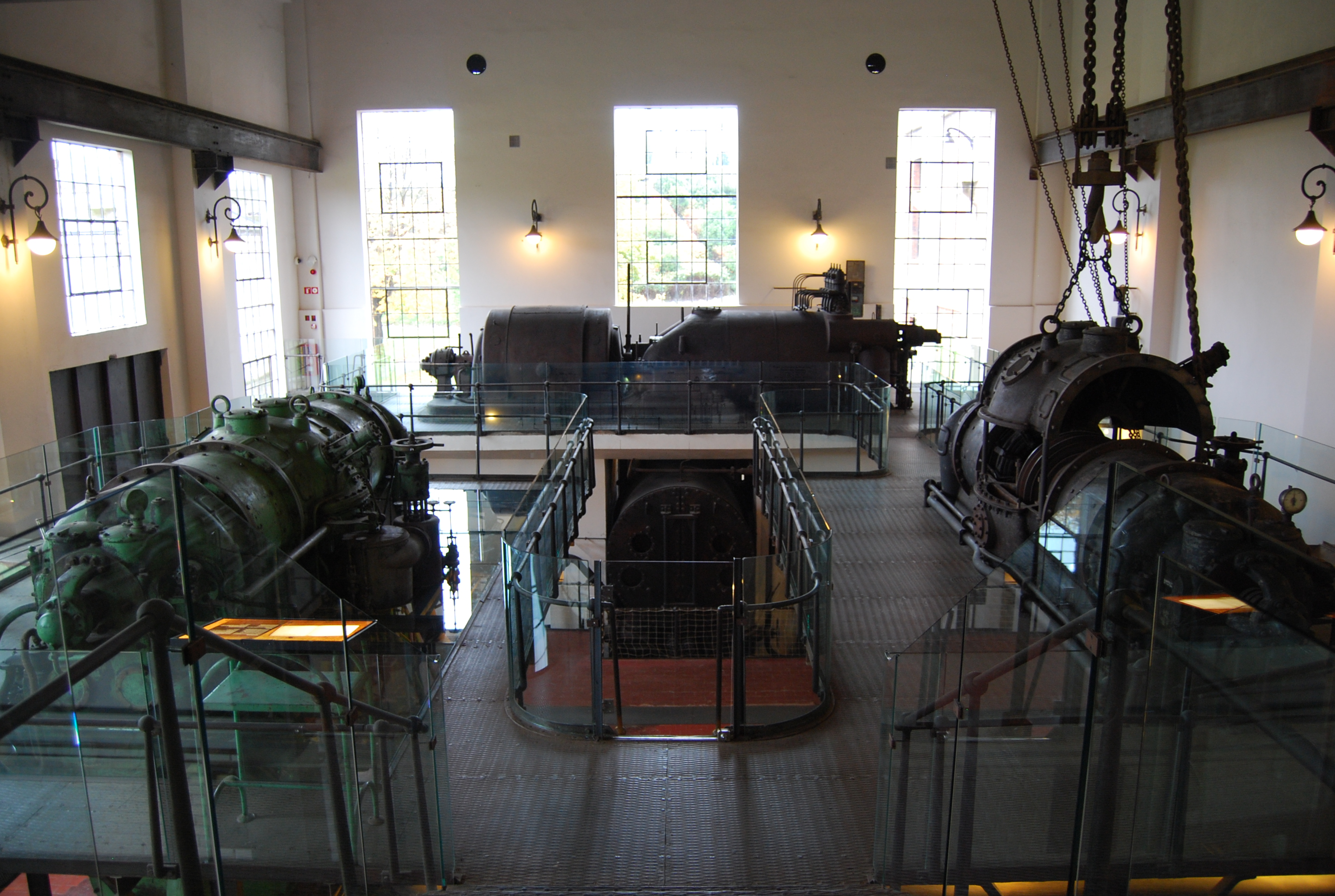 Machine room in the MSP power plant in Ponferrada (Spain)